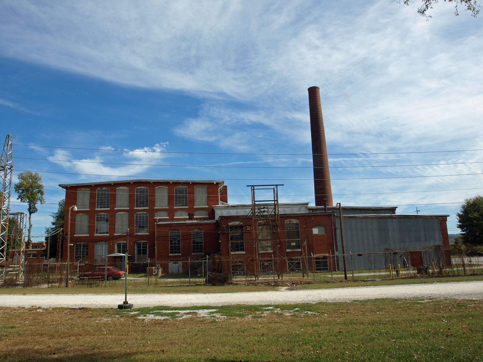 Lowe Mill in Huntsville, Alabama, listed on the National Register of Historic Places.